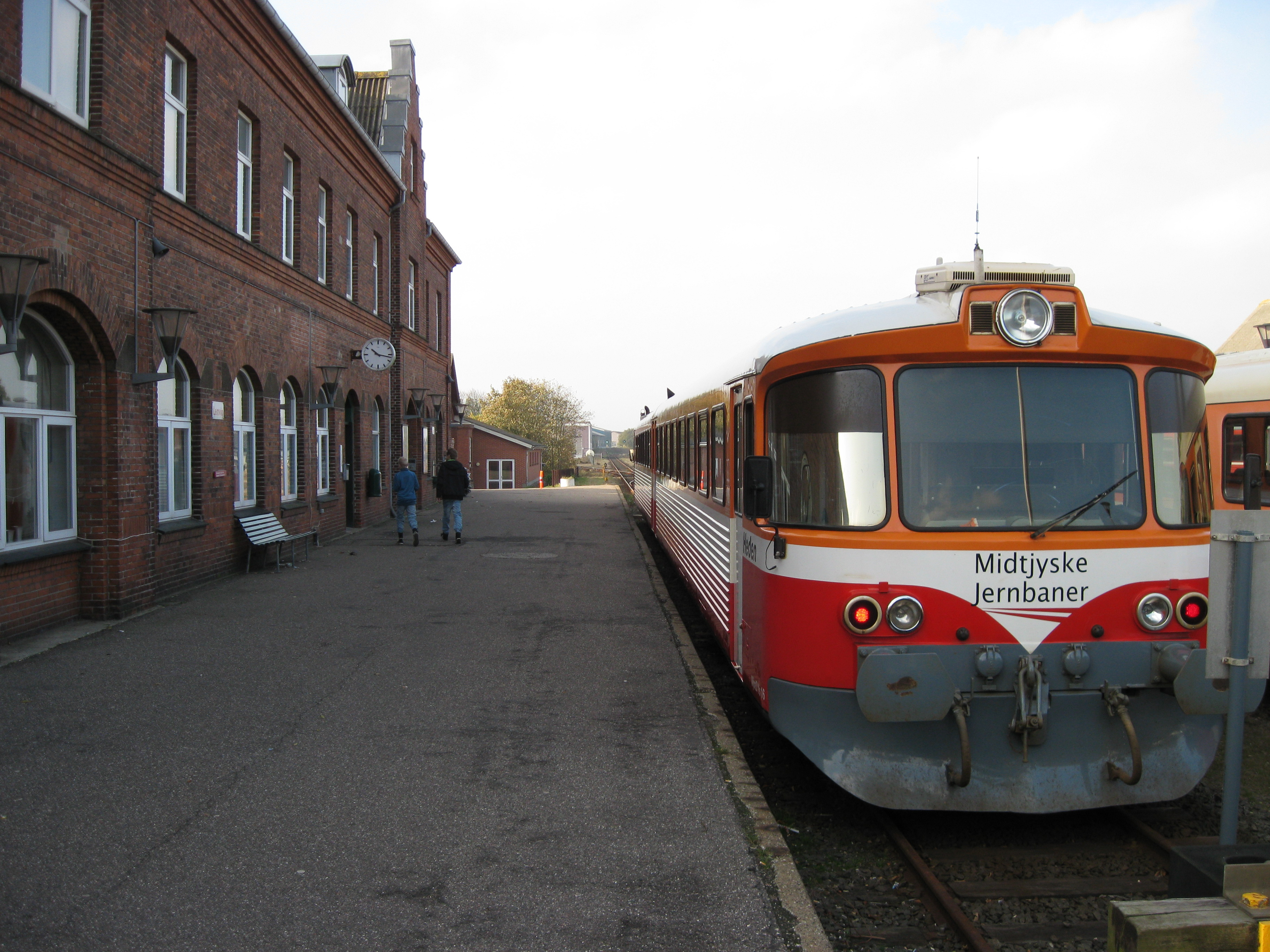 Lemvig Station, Denmark